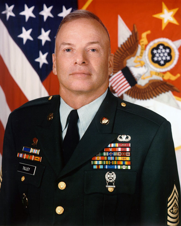 SMA Jack L. Tilley was sworn in as the 12th sergeant major of the Army on June 23, 2000, and served until Jan. 15, 2004.